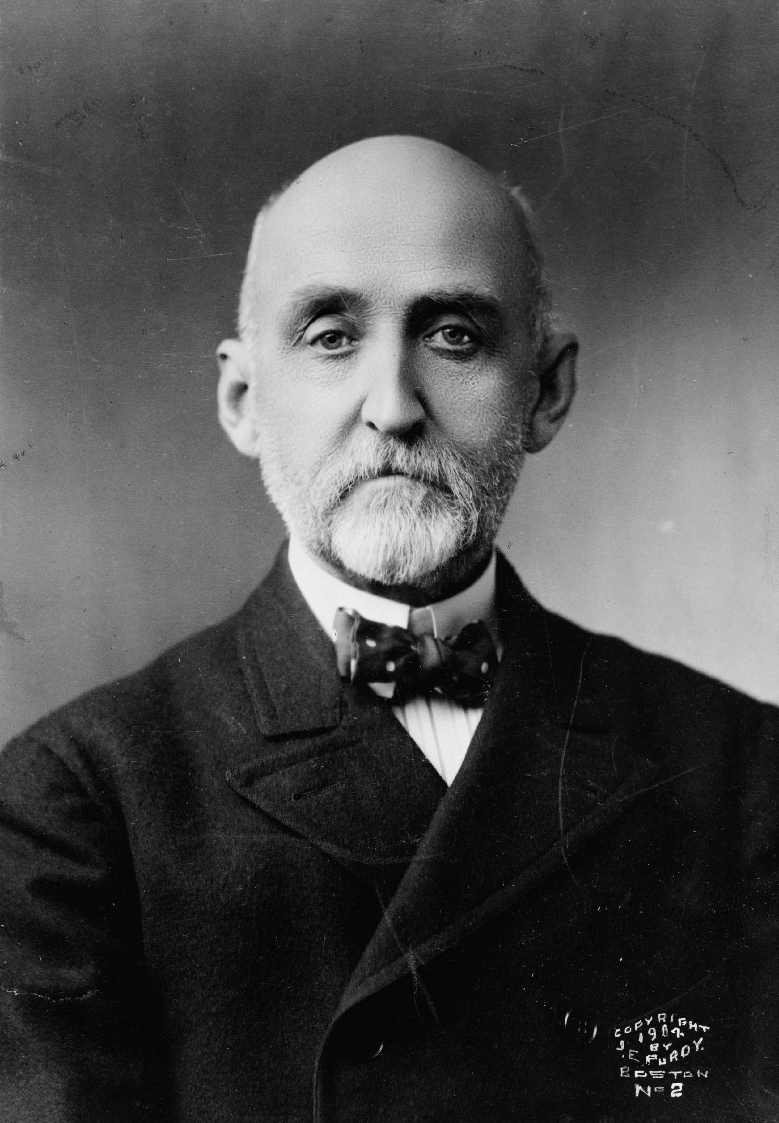 Alfred Thayer Mahan (27 September 1840–1 December 1914); Admiral in the United States Navy Description from Library of Congress website: TITLE: [Alfred Thayer Mahan, head-and-shoulders portrait, facing front] CALL NUMBER: BIOG FILE - Mahan, Alfred Thayer, 1840-1914 [P&P] REPRODUCTION NUMBER: LC-USZ62-120219 (b&w film copy neg.) MEDIUM: 1 photographic print. CREATED/PUBLISHED: c1904. NOTES: H41428 U.S. Copyright Office. Copyright by J.E. Purdy, Boston. No. 2. SUBJECTS: Mahan, A. T. (Alfred Thayer),--1840-1914. FORMAT: Portrait photographs 1900-1910. Photographic prints 1900-1910. REPOSITORY: Library of Congress Prints and Photographs Division Washington, D.C. 20540 USA DIGITAL ID: (b&w film copy neg.) cph 3c20219 CONTROL #: 98501038